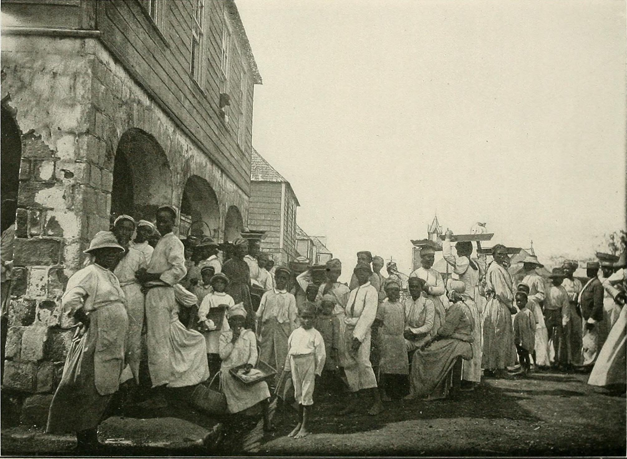 Title: The National geographic magazine Year: 1888 (1880s) Authors: National Geographic Society (U.S.) Subjects: Geography Publisher: Washington : National Geographic Society Text Appearing Before Image: of her passengers.Arriving off Georgetown, the anchorwas dropped, and a landing effected bymeans of a strong boat which put outfrom the shore. The landing was novel,and to a novice somewhat exciting.Some distance out from the end of along pier was a buoy, with a cable pass-ing in to the shore and alongside thedock. The shore boat, manned by Text Appearing After Image: 280 The National Geographic Magazine